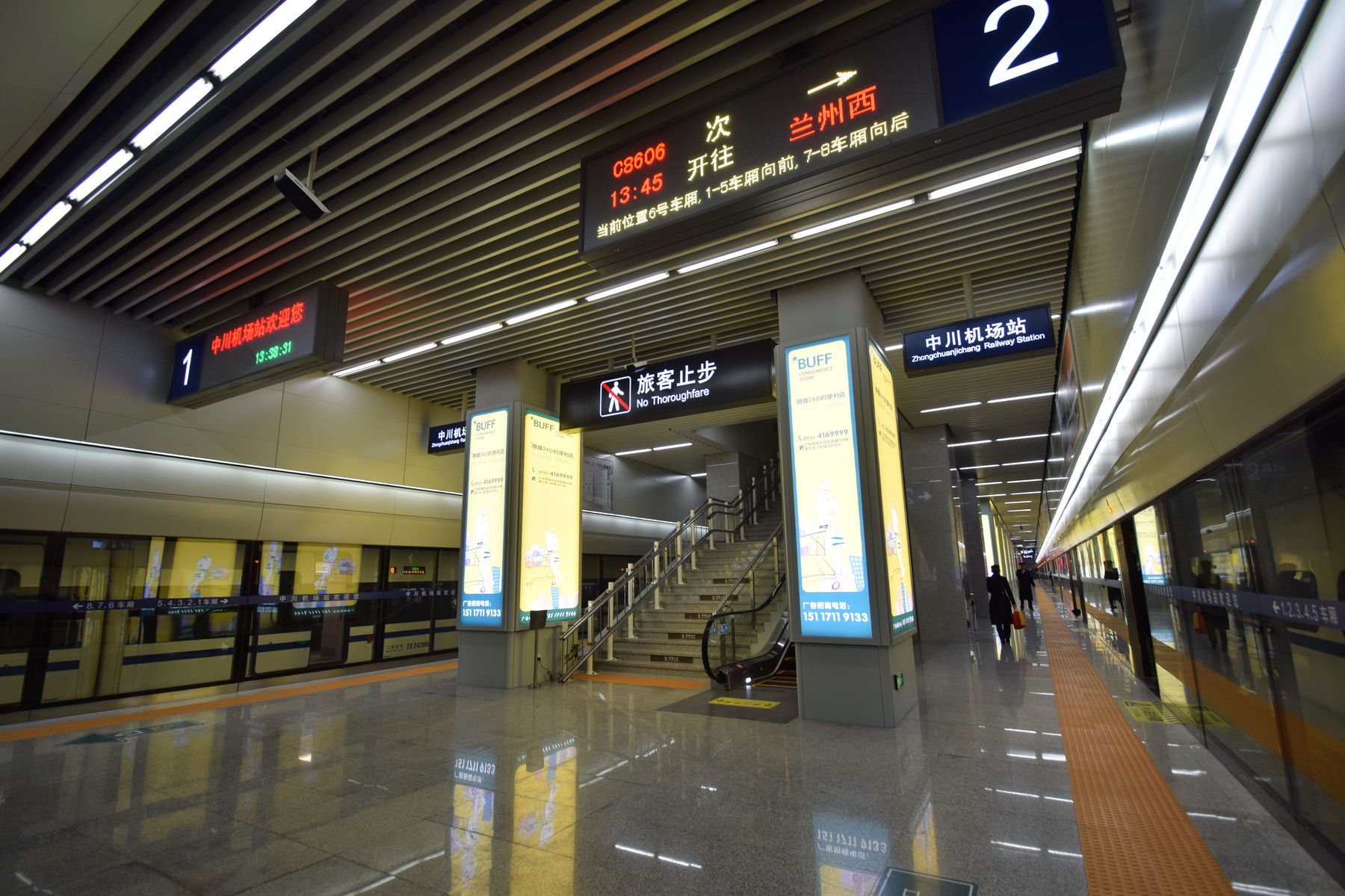 Platform of Zhongchuan Airport Railway Station, Lanzhou-Zhongchuan Airport Intercity Railway